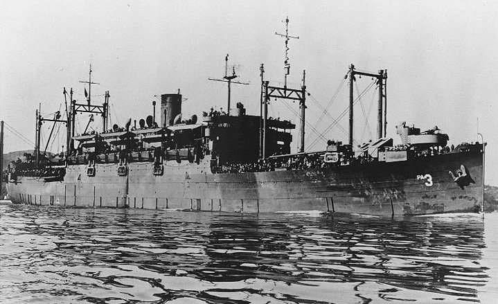 underway in San Francisco Bay, California, circa late 1945.